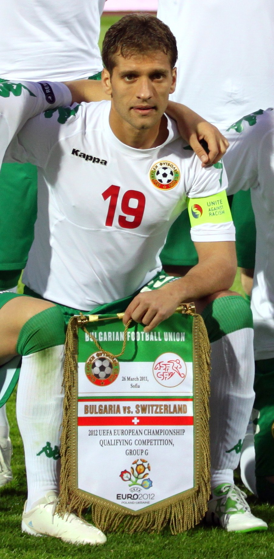 Stiliyan Petrov